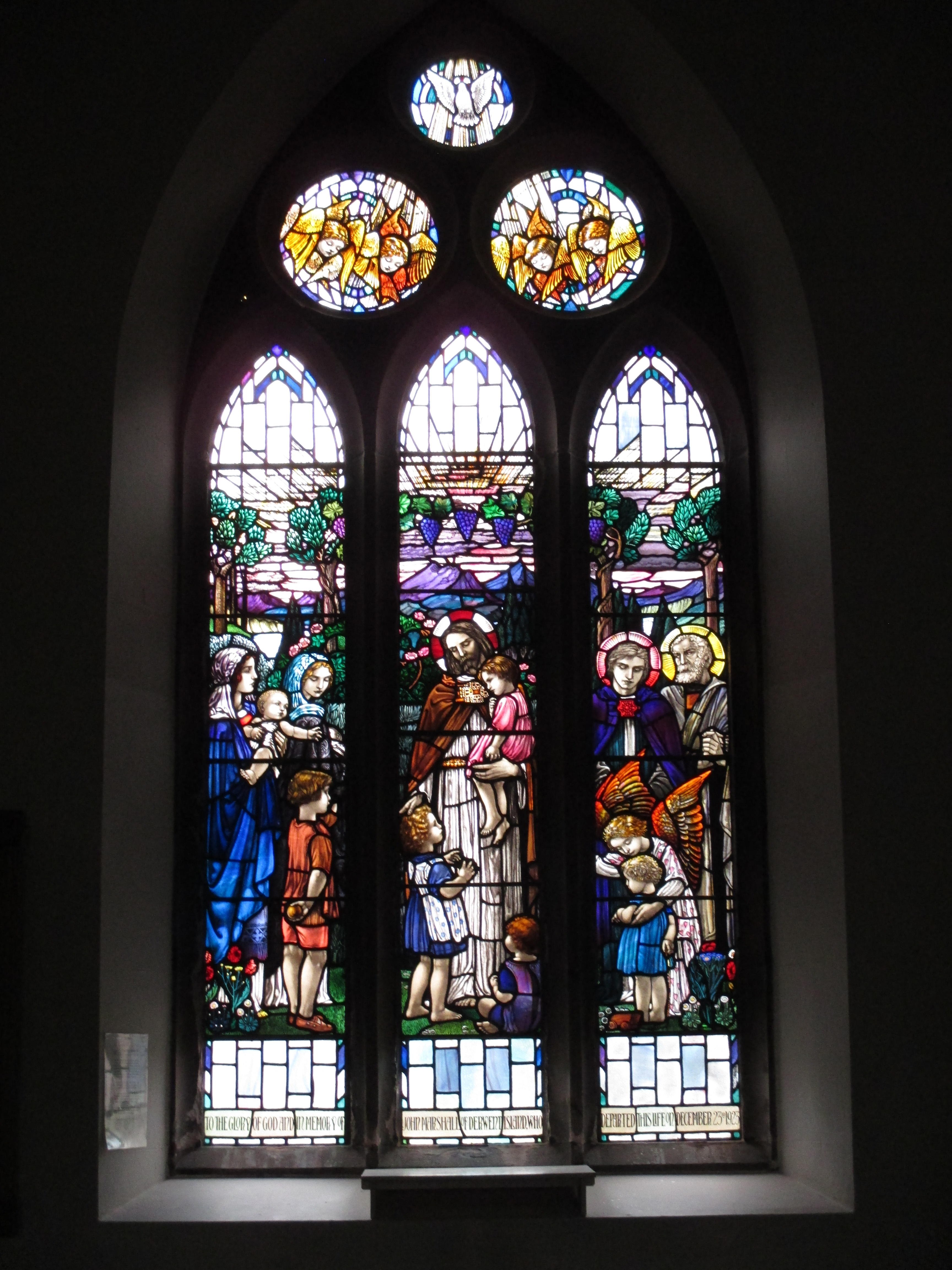 The second window of the south aisle of St John's Church, Keswick, Cumbria. It commemorates John Marshall (d. 1923), and was designed by Veronica Whall.